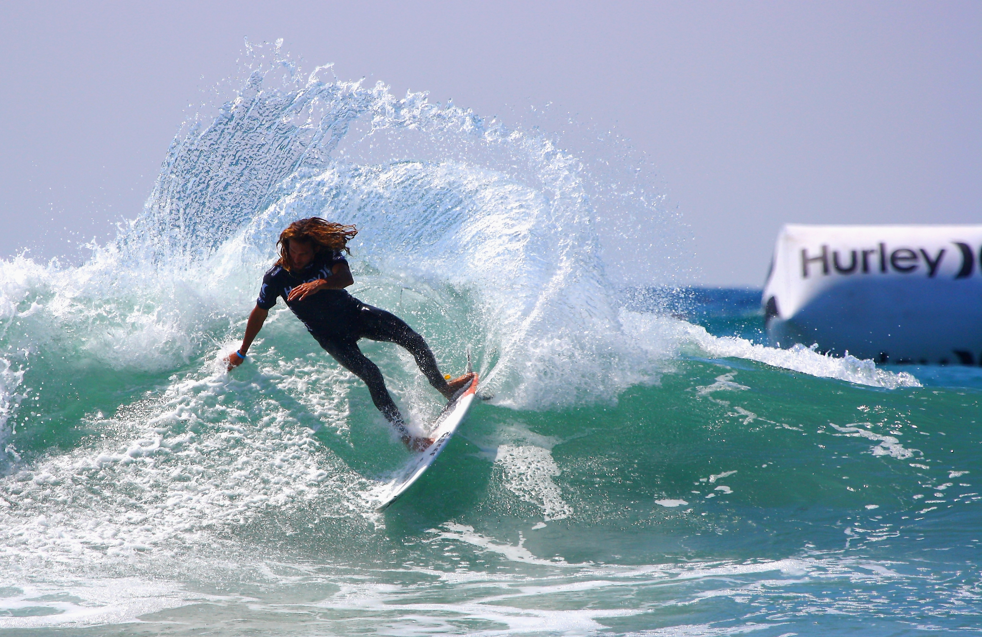 Professional surfer Rob Machado performs a cutback at Lower Trestles in Southern California.